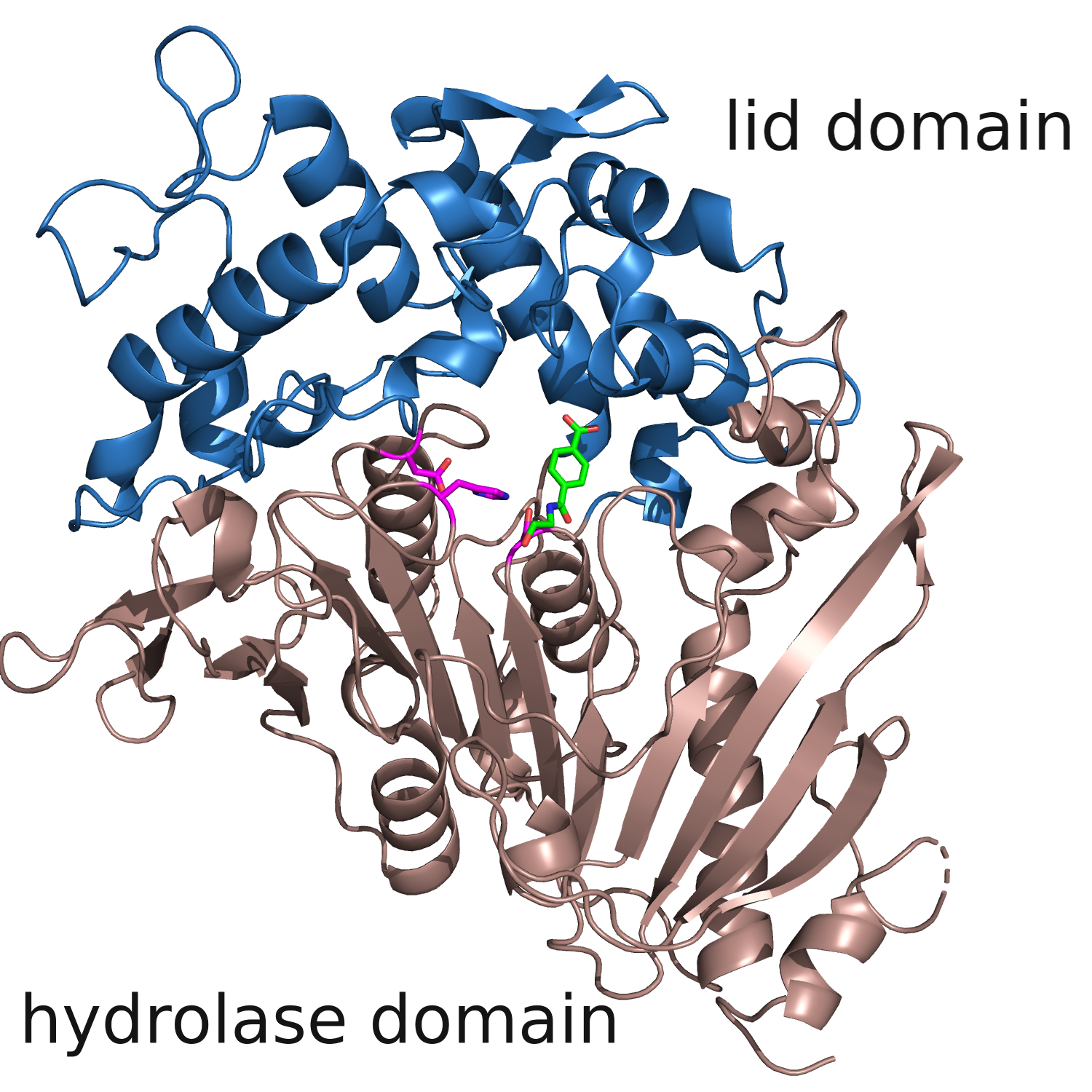 MHETase ribbon diagram with substrate analogue mono-(hydroxyethyl)-terephthalamide. From PDB 6QGA.